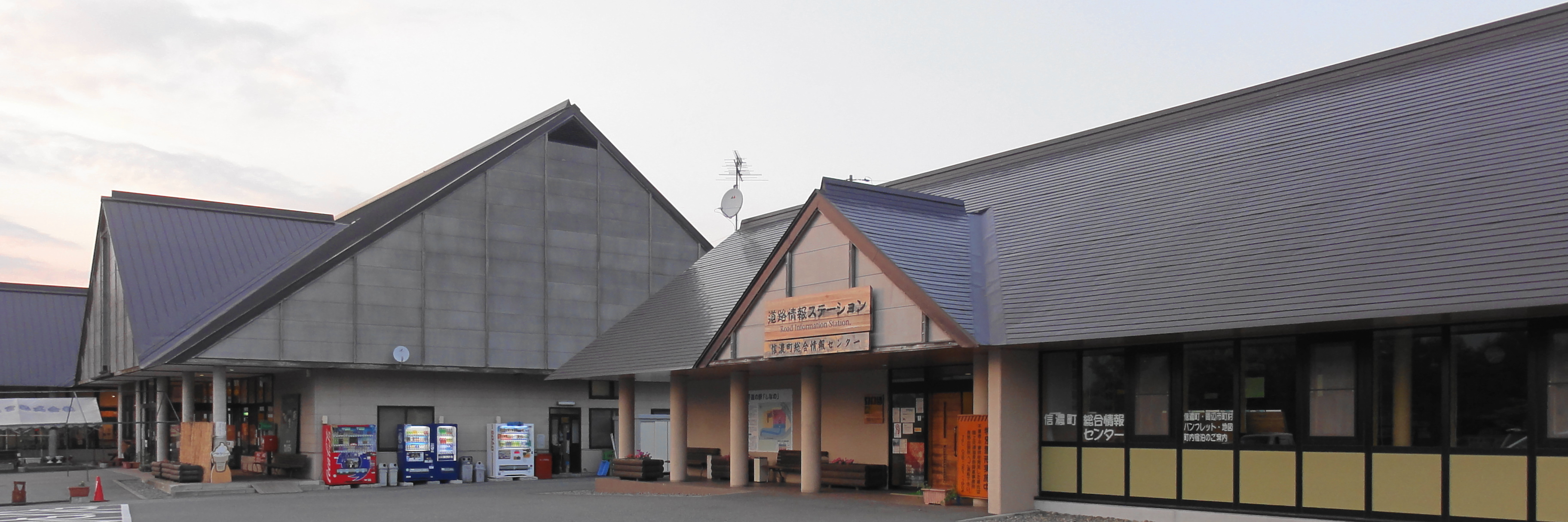 Road to station Shinano,Nagano prefecture,Japan